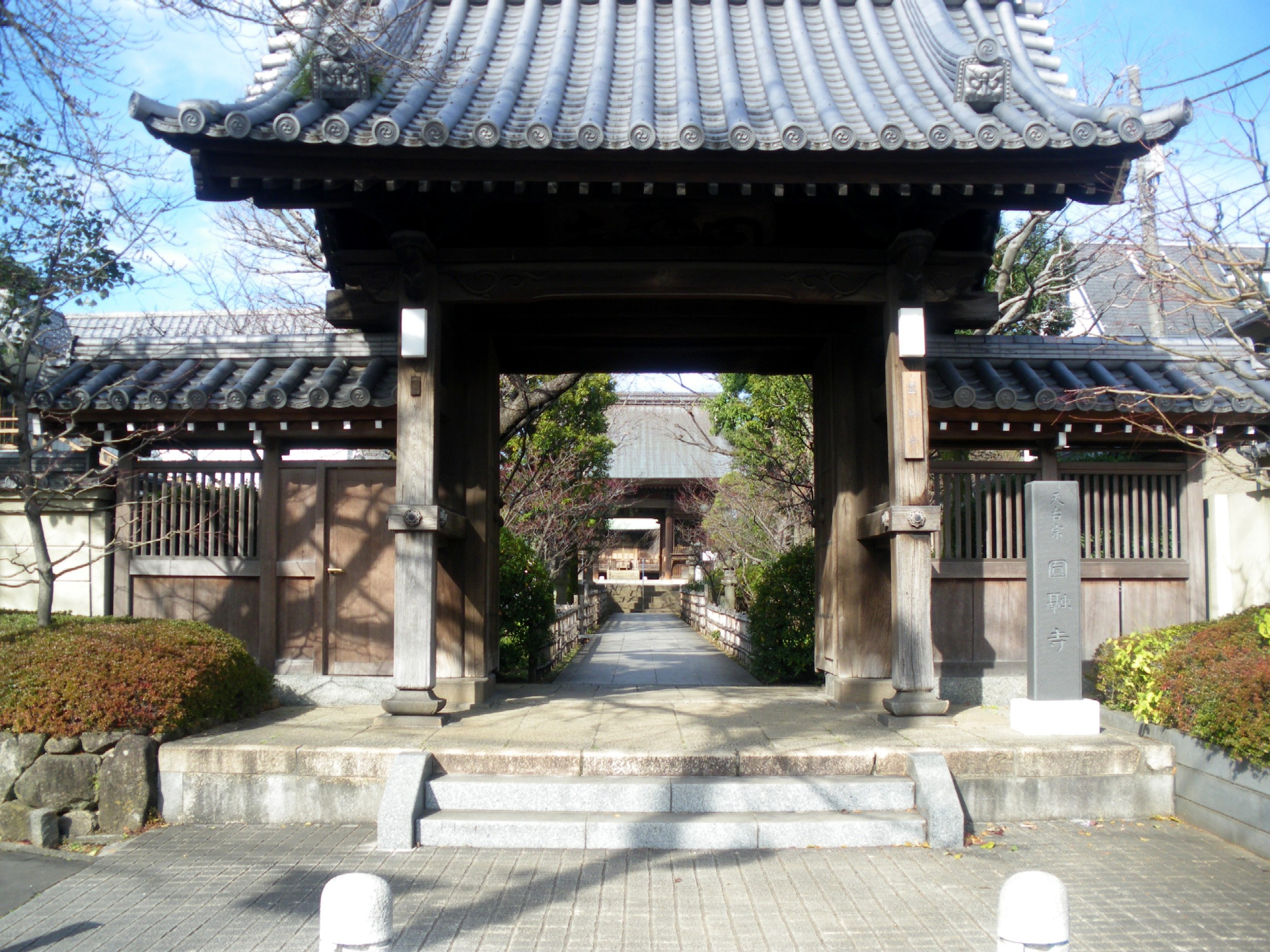 A photo of Enyuuji temple,Himonya Meguro-ku,Tokyo,Japan.